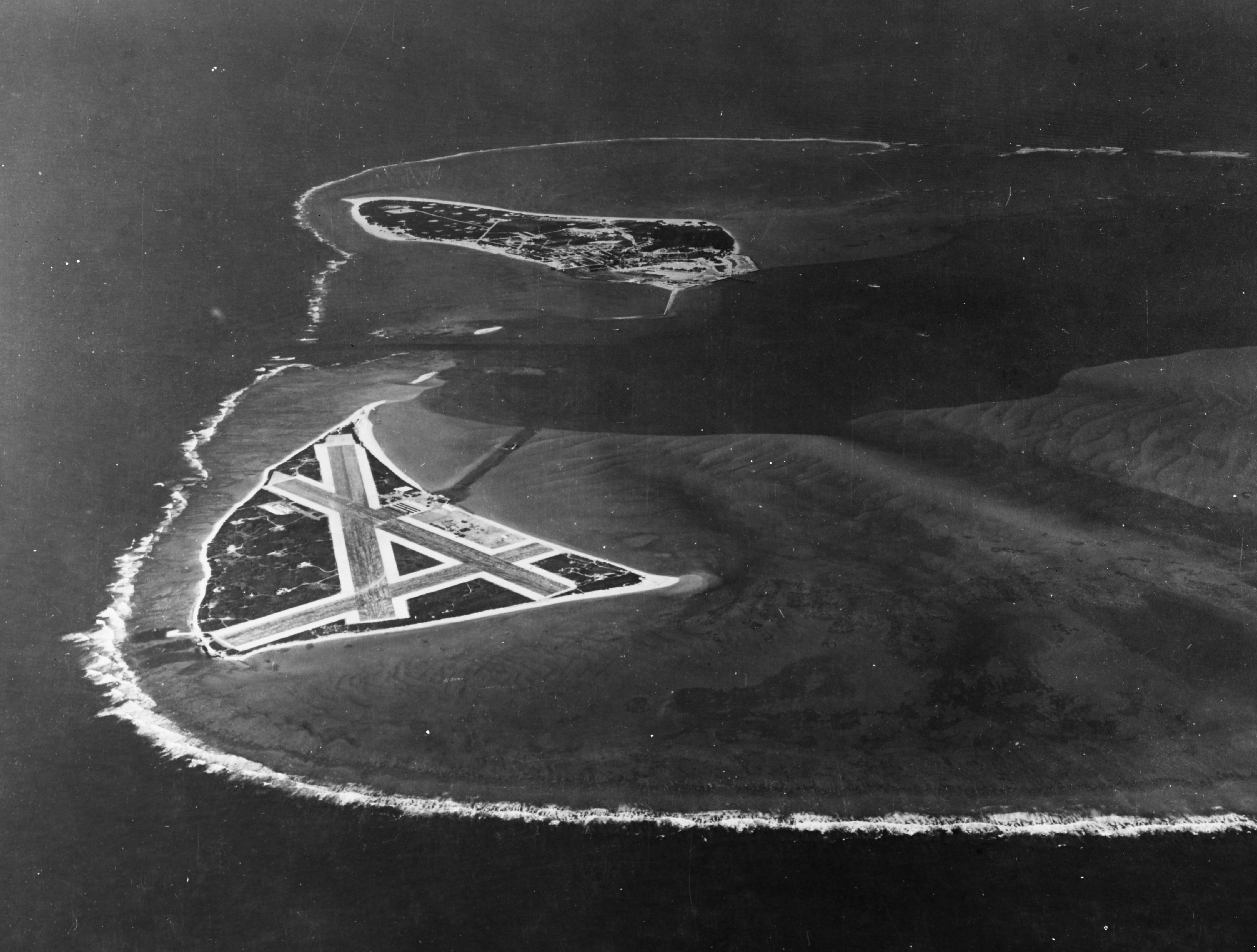 Aerial photograph of Midway Atoll, looking just south of west across the southern side of the atoll, 24 November 1941. Eastern Island, then the site of Midway's airfield, is in the foreground. Sand Island, location of most other base facilities, is across the entrance channel.